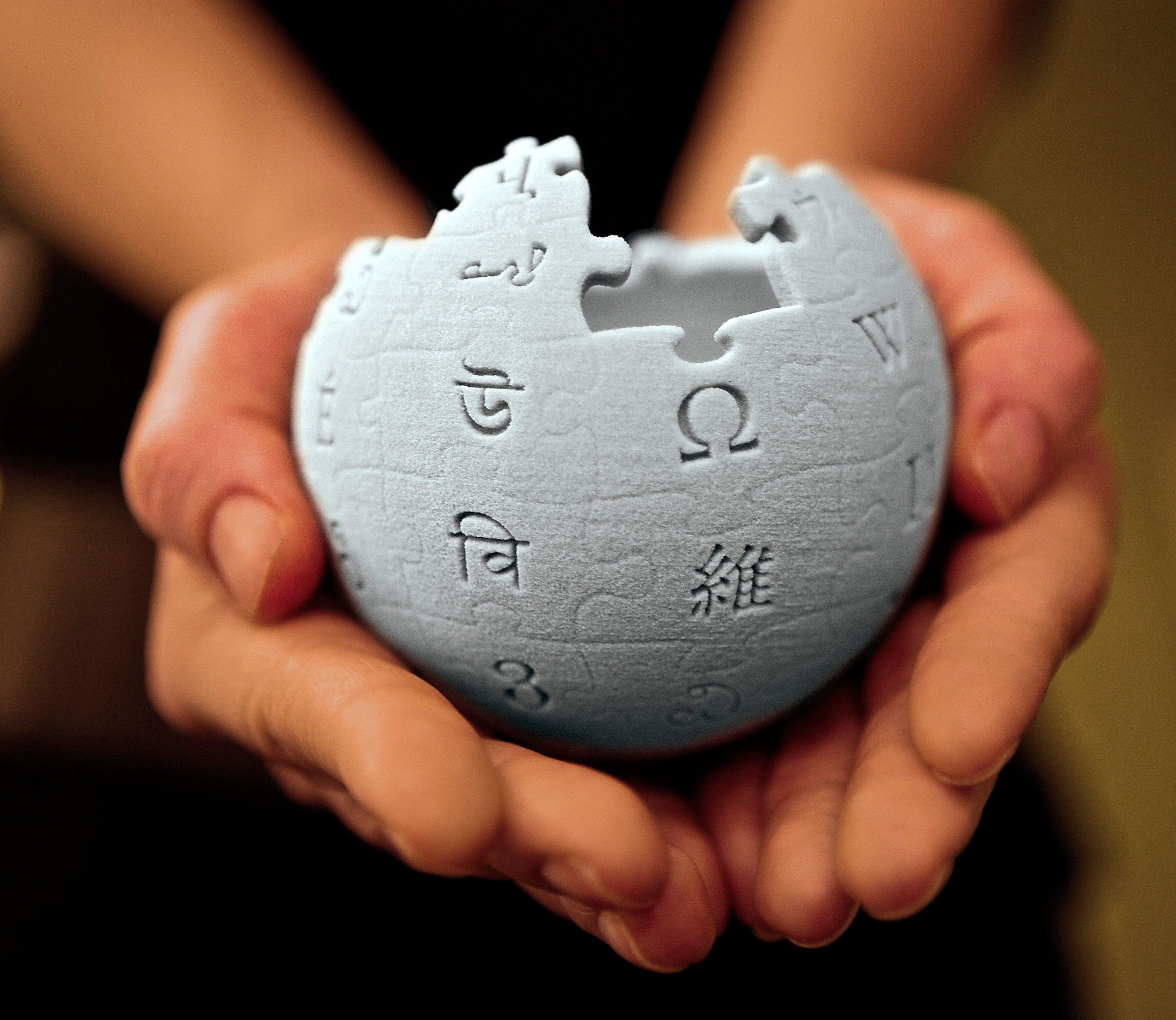 Design by David Peters for the Wikimedia Foundation. Photography by Lane Hartwell for the Wikimedia Foundation